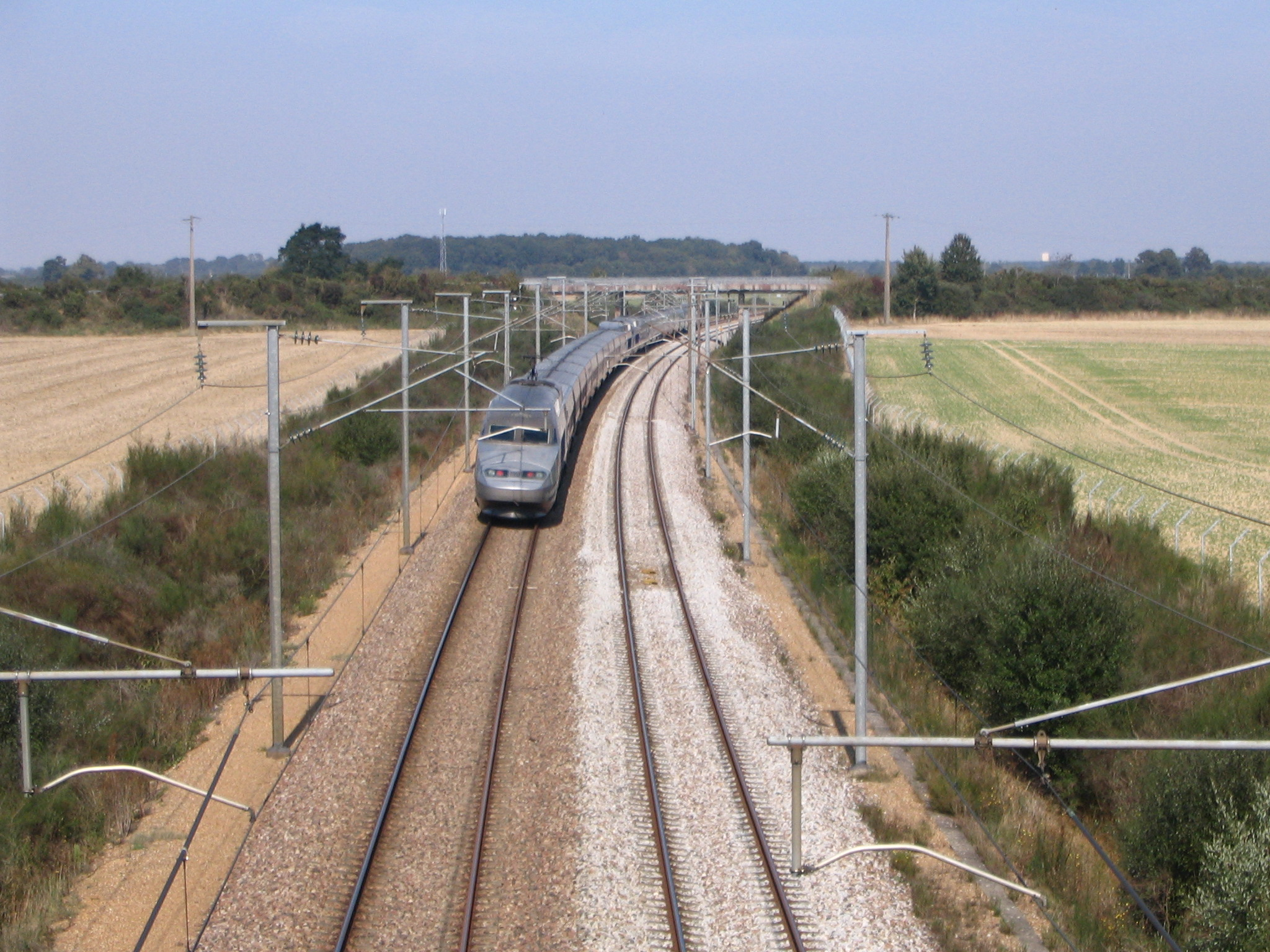 A TGV on the Aquitaine branch of LGV Atlantique, near Droué, Loir-et-Cher, France.